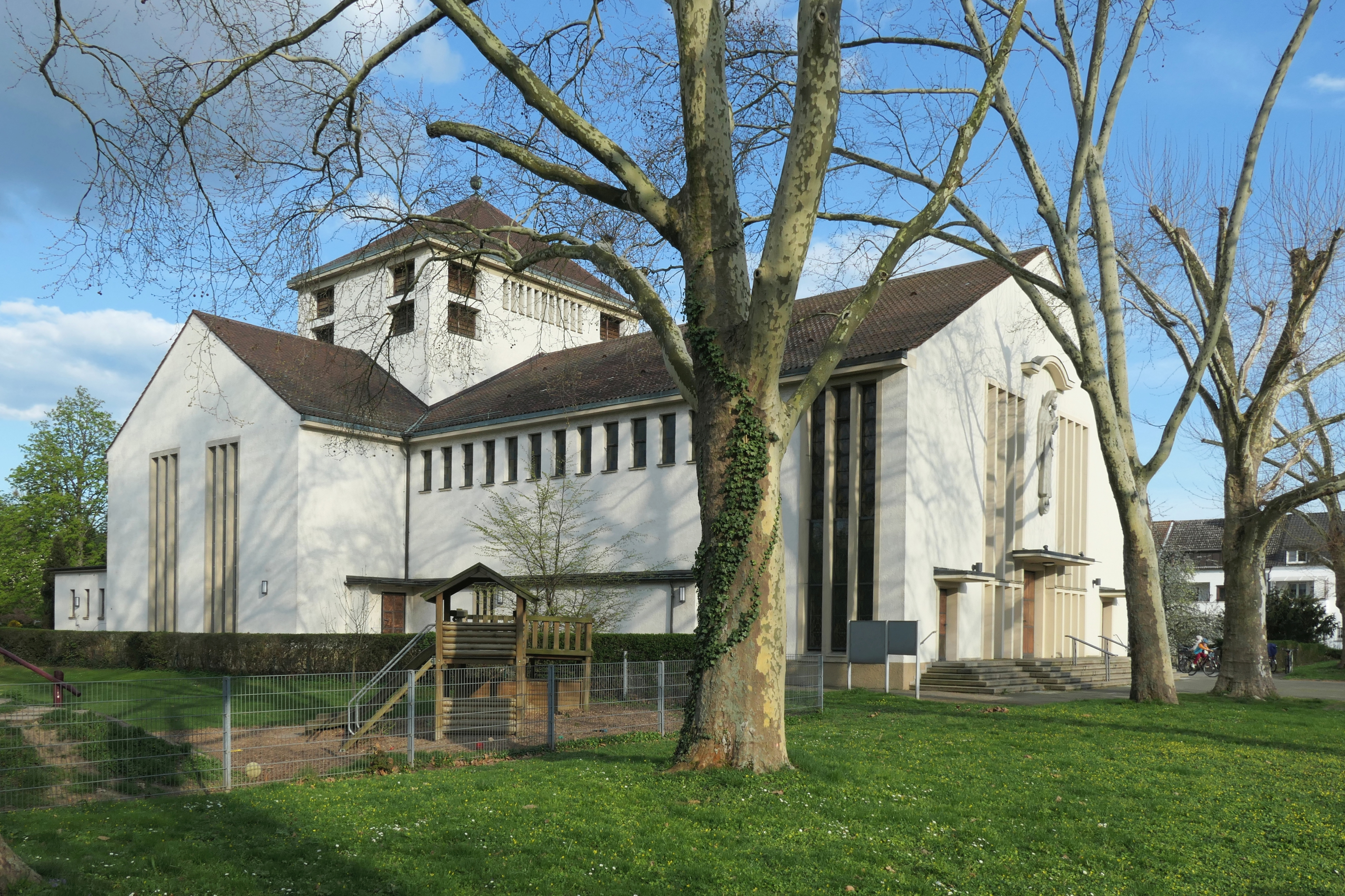 Mary Help Church, Mannheim-Almenhof, view from North-West